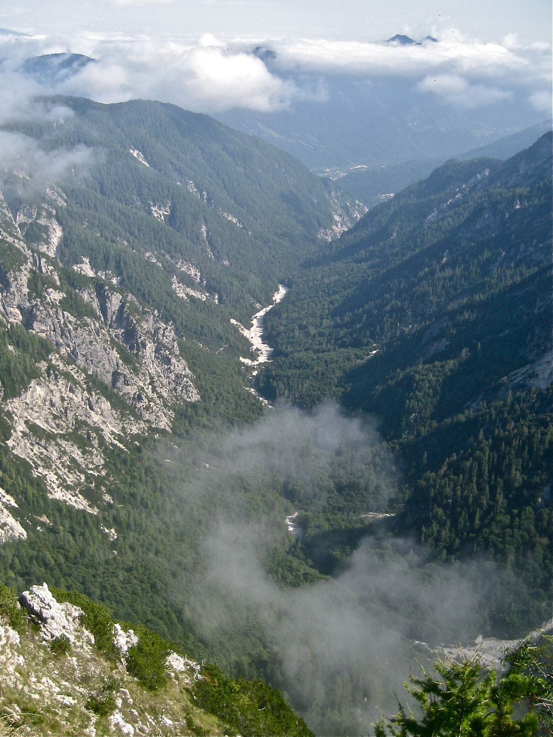 Mala Pišnica valley near Kranjska Gora, Slovenia